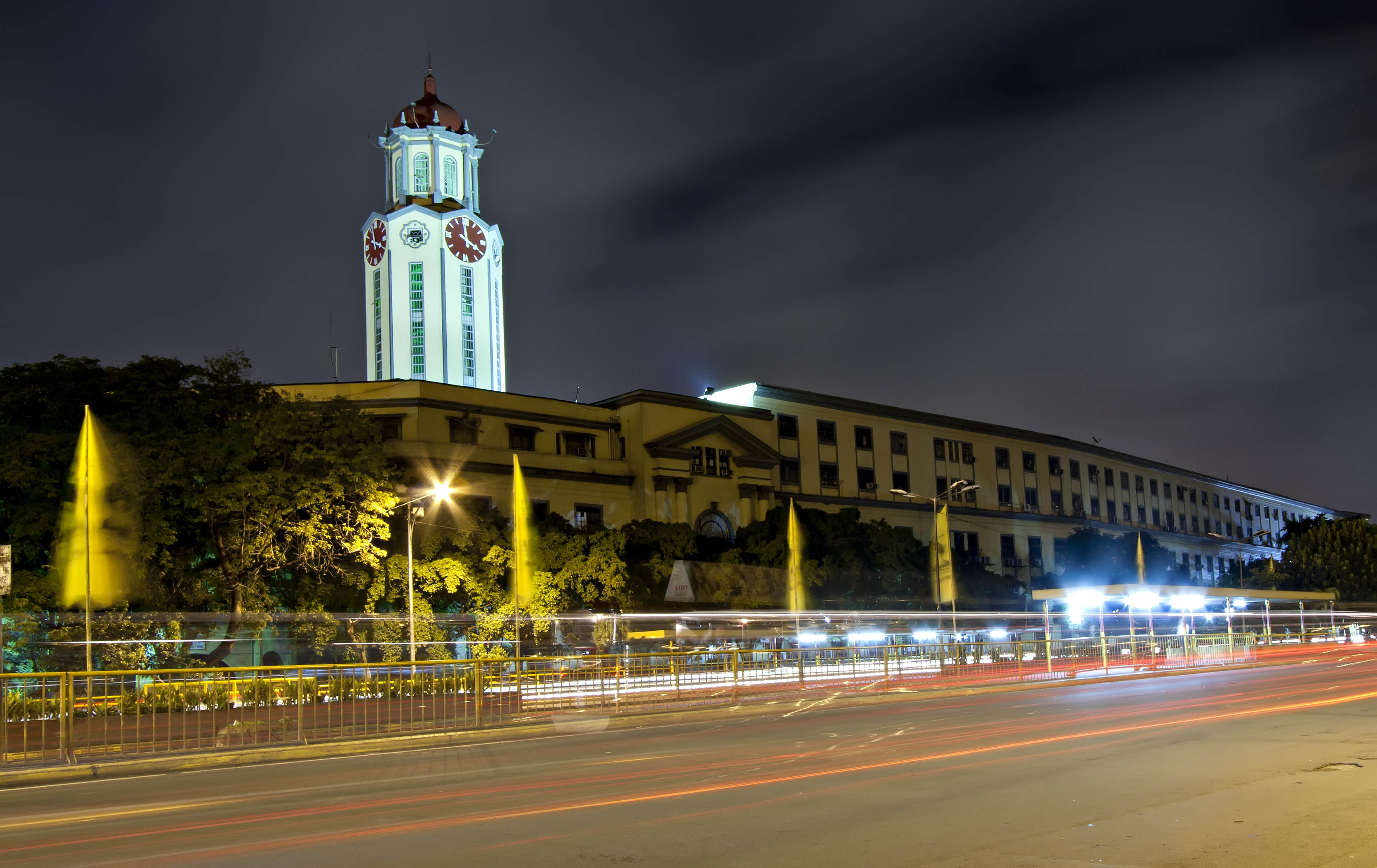 The Manila Cityhall at dawn.